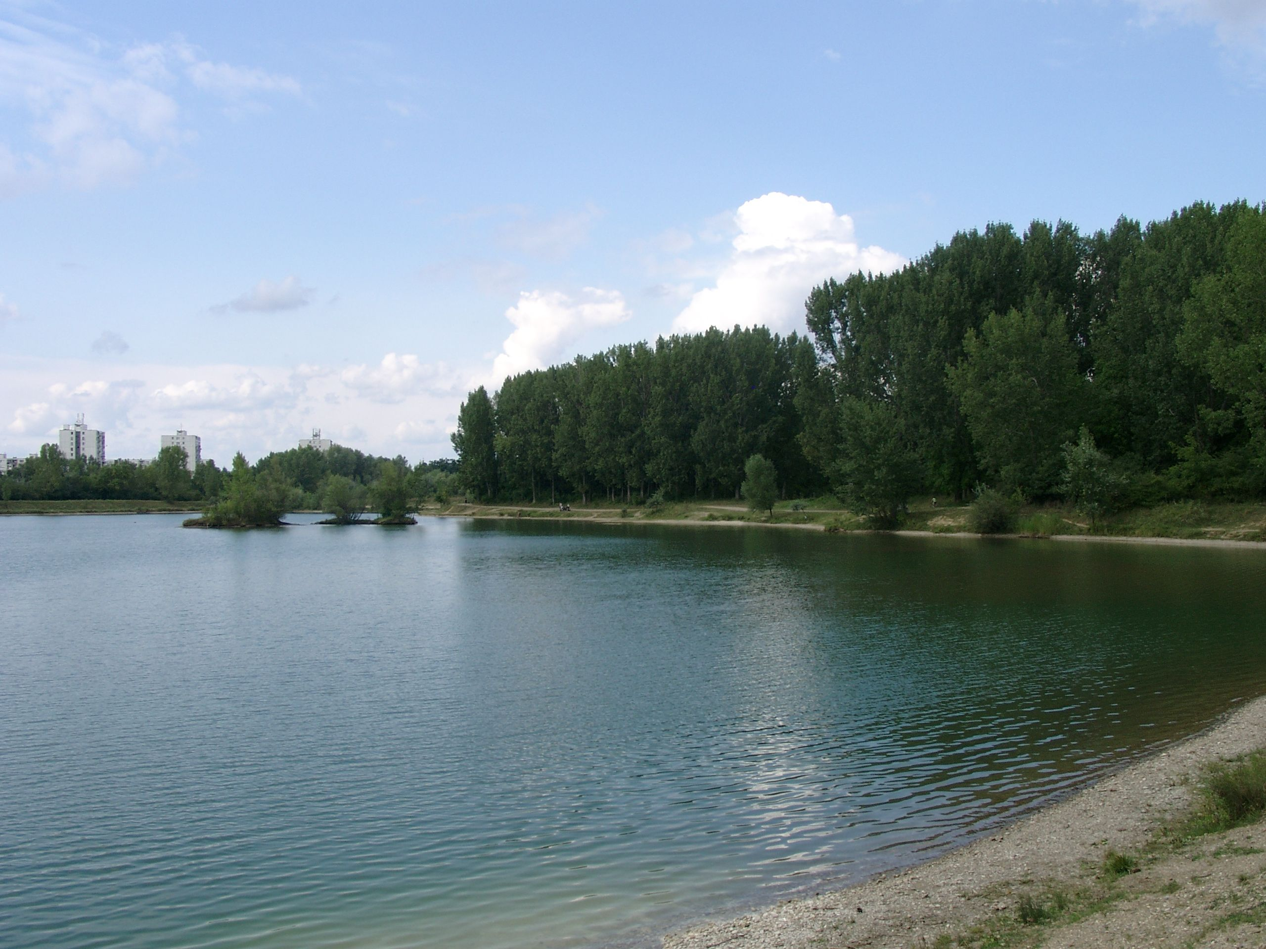 ponds in Sereď